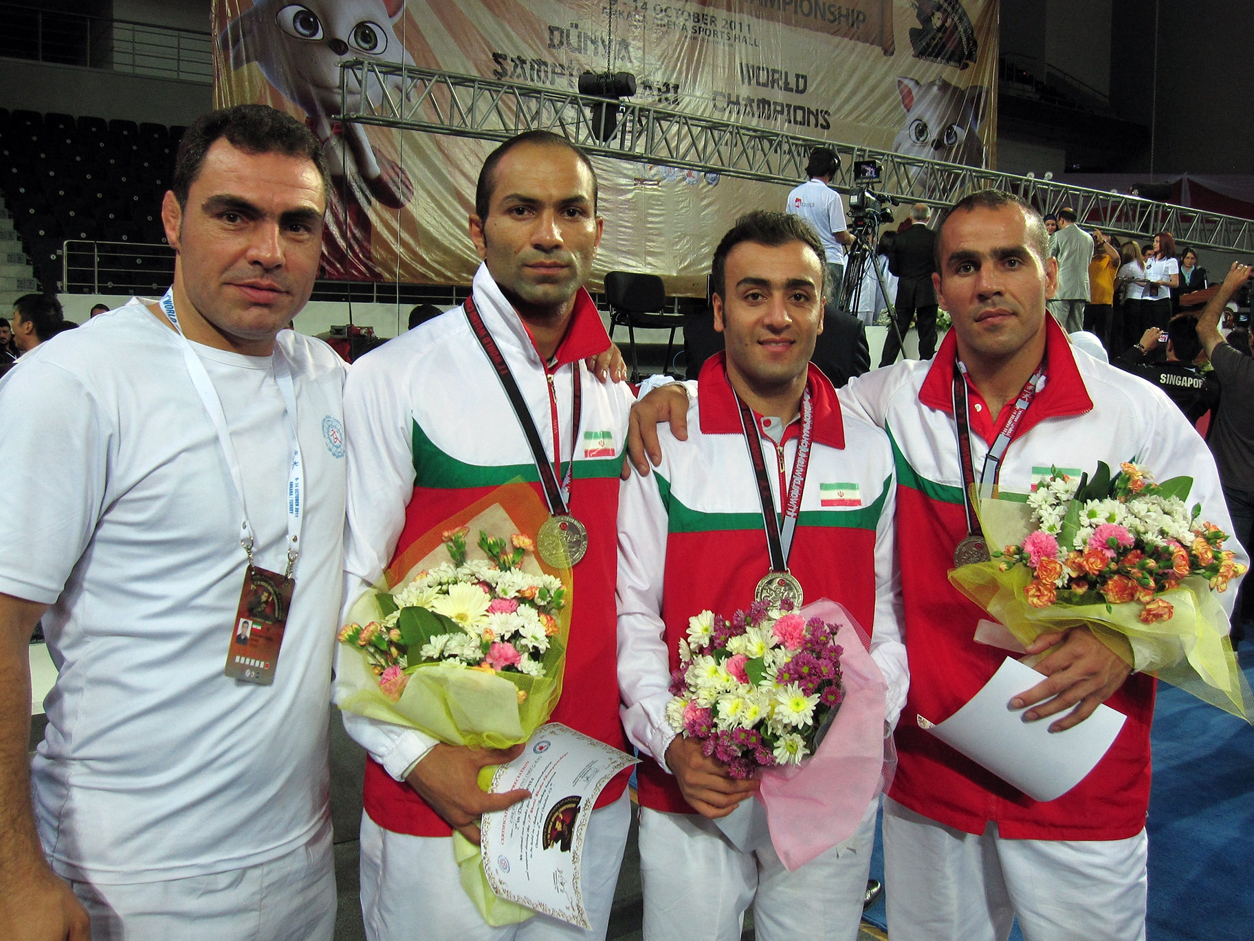 Iran taolu team in 2011 World Wushu Championships. Wushu National Team of Iran gained second place in the competition. From left to right: Mohammad-Reza Ja'fari- Ibrahim Fathi- Navid Makvandi- Mohsen Ahmadi.